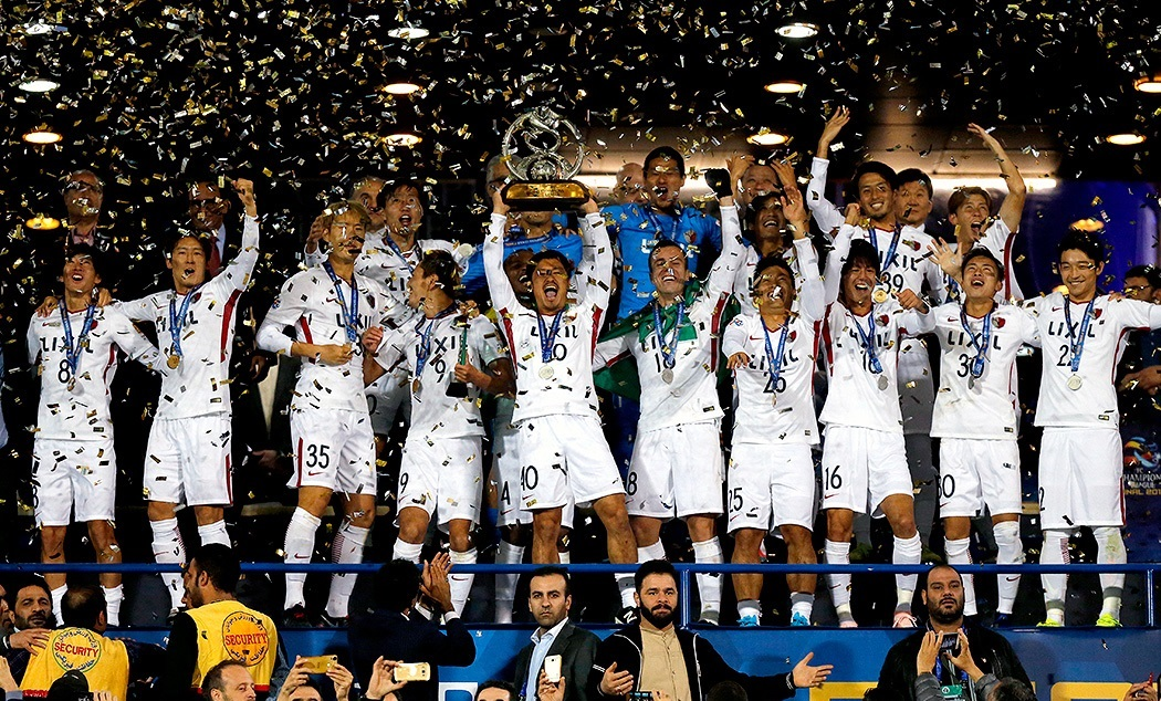 Kashima Antlers lifted 2018 ACL trophy